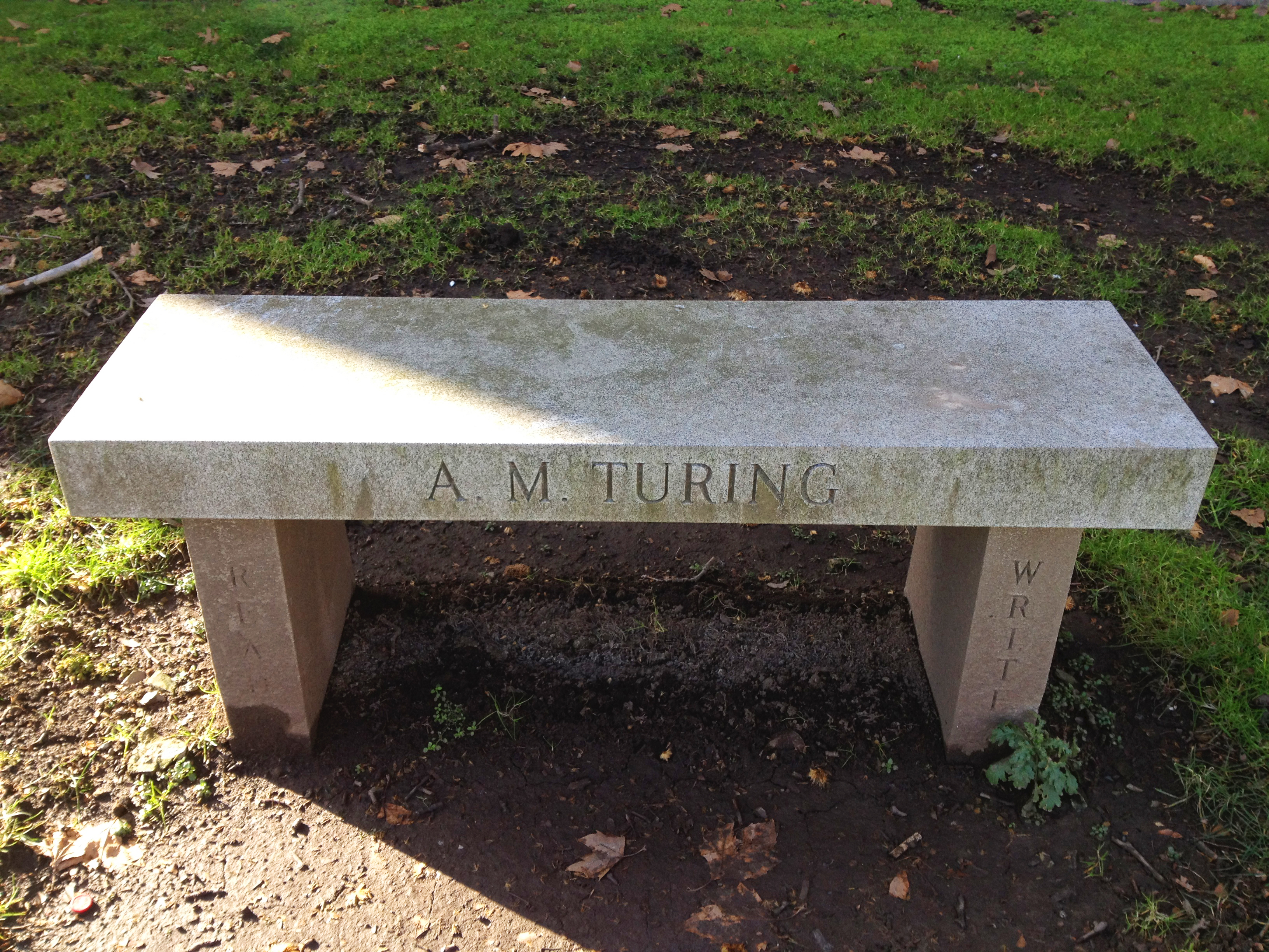 Bench constructed in honor of Alan Turing, Carnegie Mellon University, Pittsburgh Pennsylvania USA campus